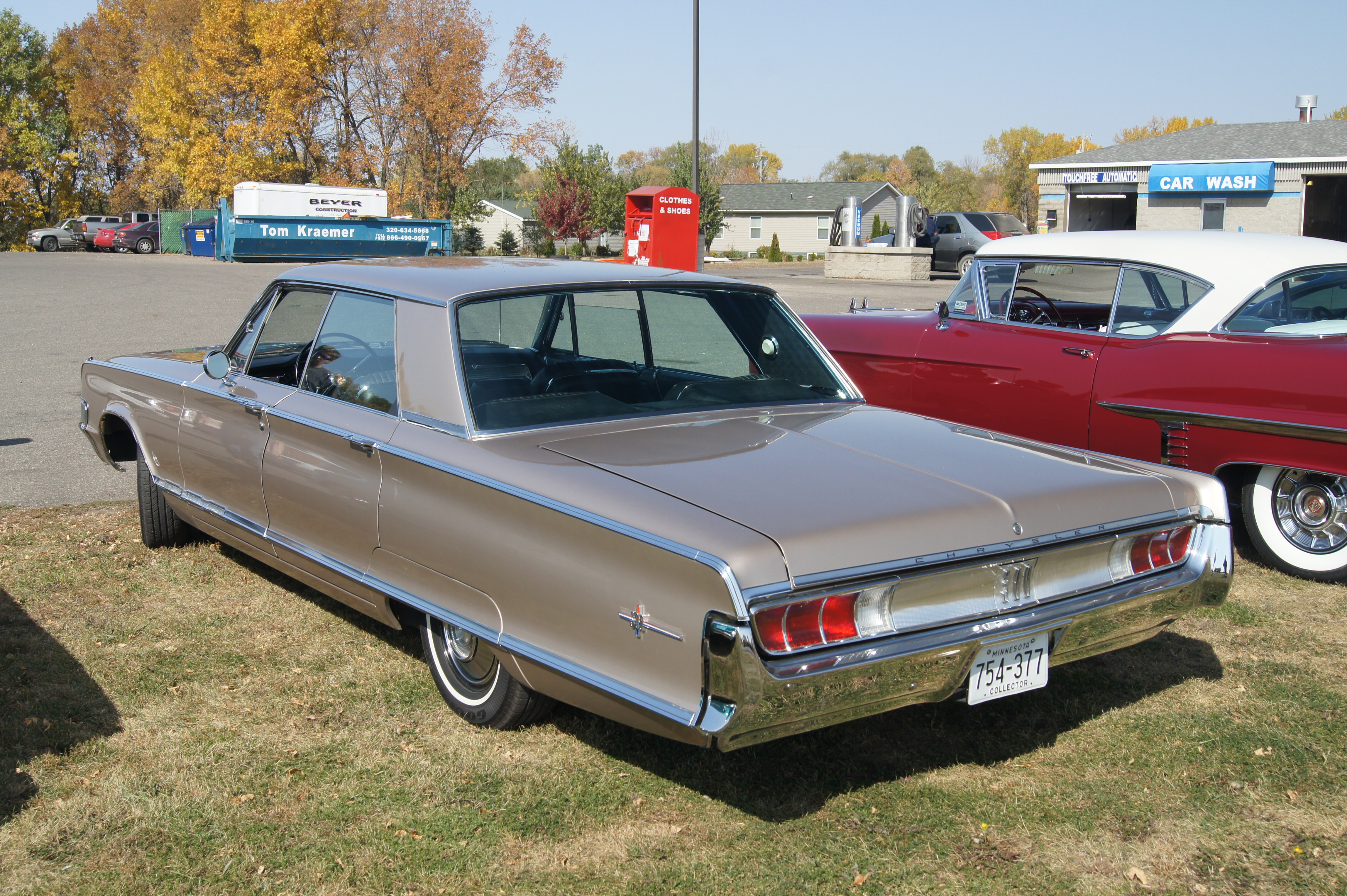 The Alexandria Vintage Car Club had a Fall Cruise that followed the Glacial Ridge Trail. Rich Carlson, President of the Alexandria Club, picked a beautiful day and a gorgeous route from Alexandria to New London. Glenwood A&W and Jorgenson's Museum in Sunburg were stops along the way.